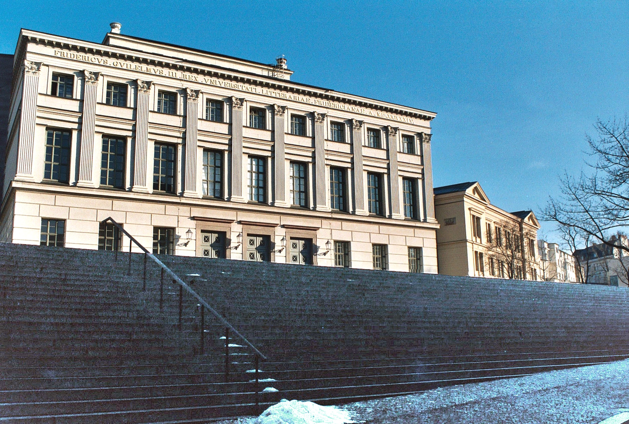 Halle (Saale), the Custody of the University